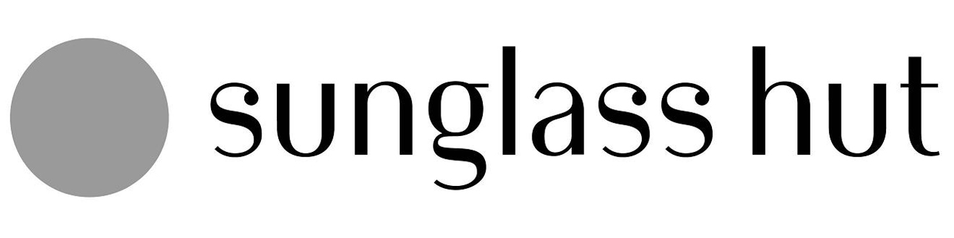 This is the latest version of the Sunglass Hut logo. The current logo used on their website is the older version which has not been used since 2009.